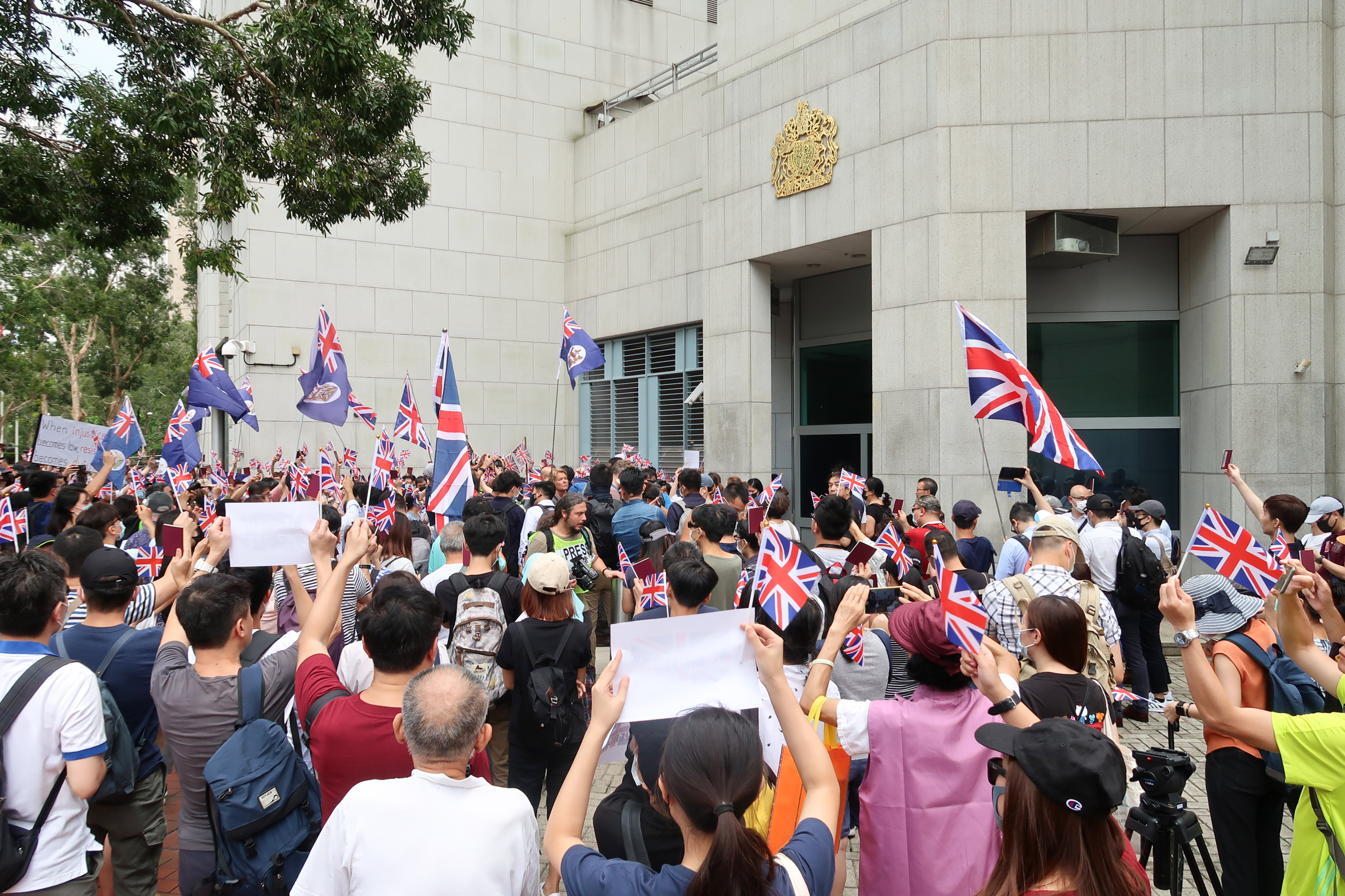 Equal rights for BNO protest